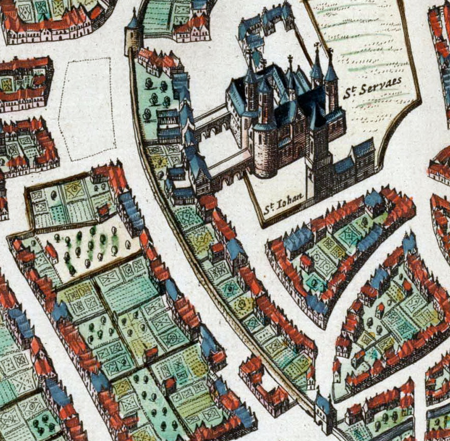 Maastricht, the Netherlands. Detail of a map of Maastricht from the Atlas Maior, published by Blaeu (Amsterdam, 1652), showing the first Medieval city wall along Sint Servaasklooster (Borchgraeve) between Tweebergenpoort (top left) and Lenculenpoort (bottom right).